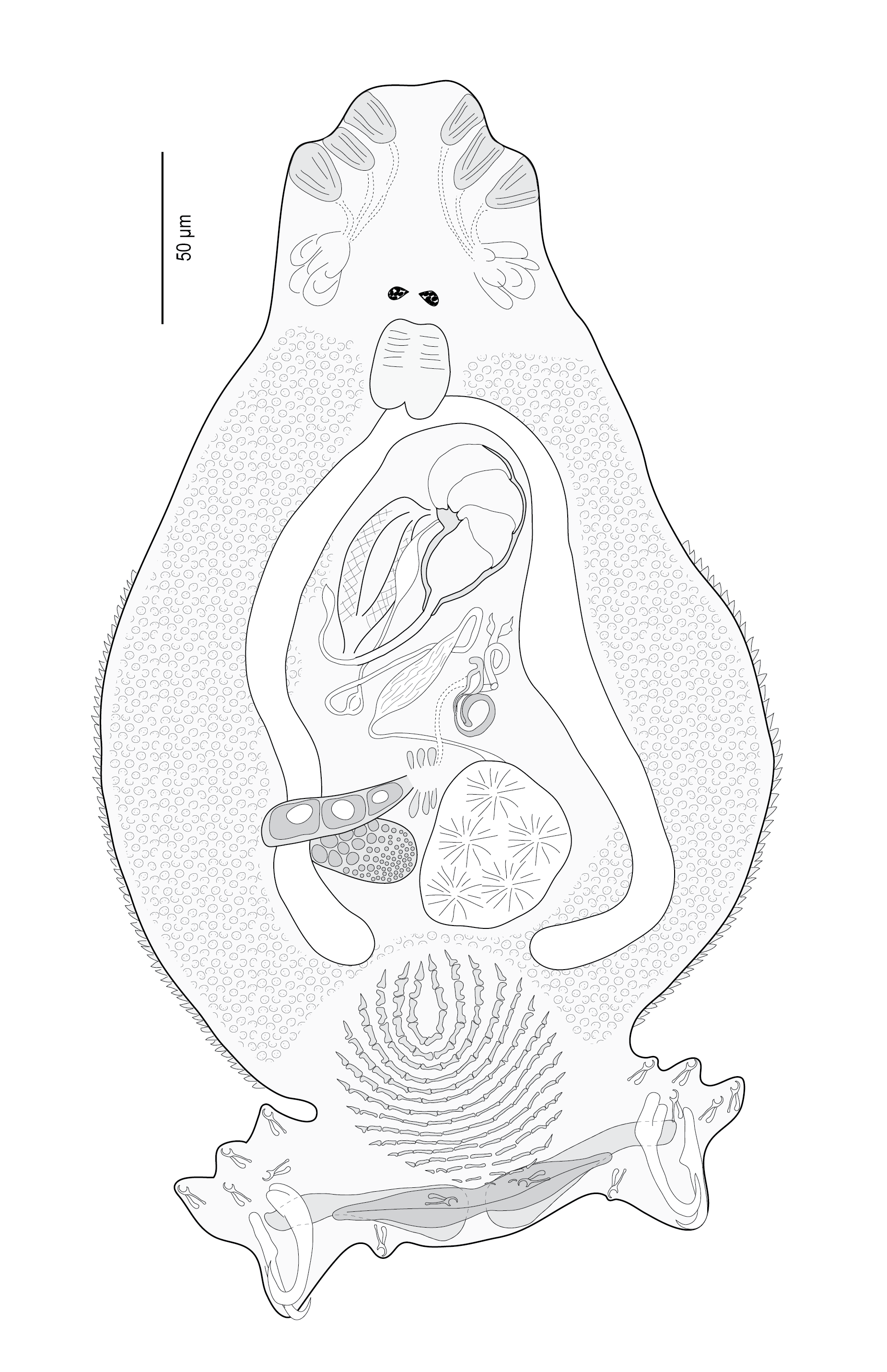 Pseudorhabdosynochus epinepheli (Monogenea, Diplectanidae) from Epinephelus chlorostigma off New Caledonia - whole body, ventral view. Original drawing, similar to Figure 6A published in: Justine, Jean-Lou, 2009: A redescription of Pseudorhabdosynochus epinepheli (Yamaguti, 1938), the type-species of Pseudorhabdosynochus Yamaguti, 1958 (Monogenea: Diplectanidae), and the description of P. satyui n. sp. from Epinephelus akaara off Japan. Systematic Parasitology, 72, 27-55.